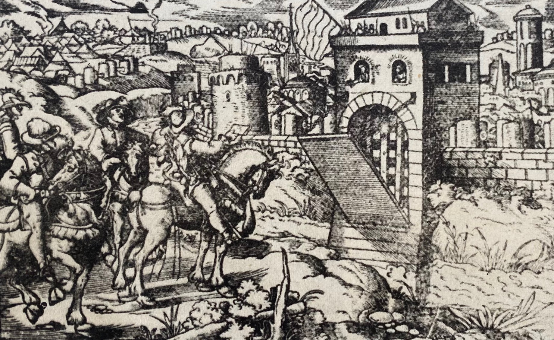 Skanderbeg's return to Krujë (?) 1449